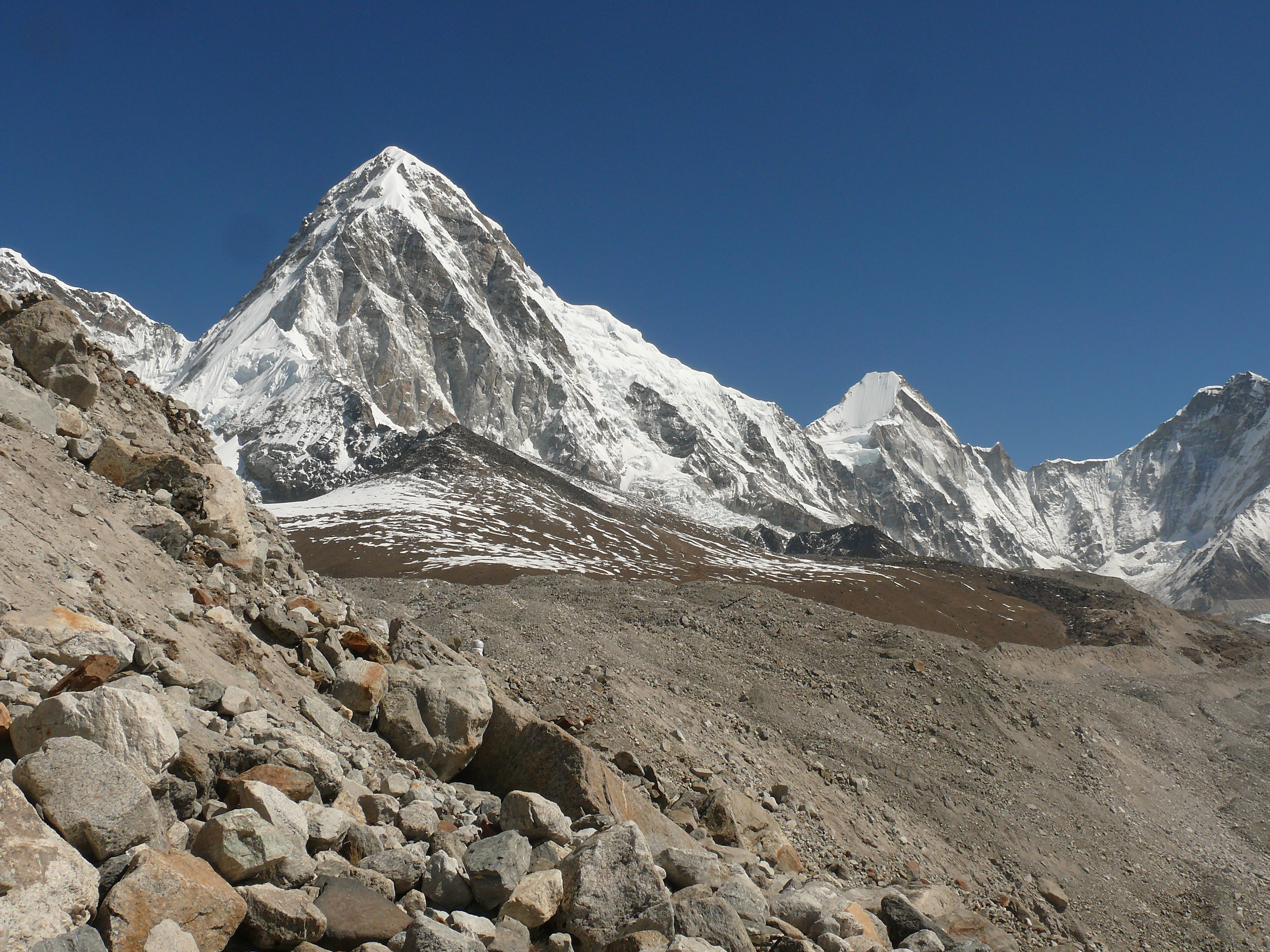 Pumori Lingtren Khumbutse Kala Pathar